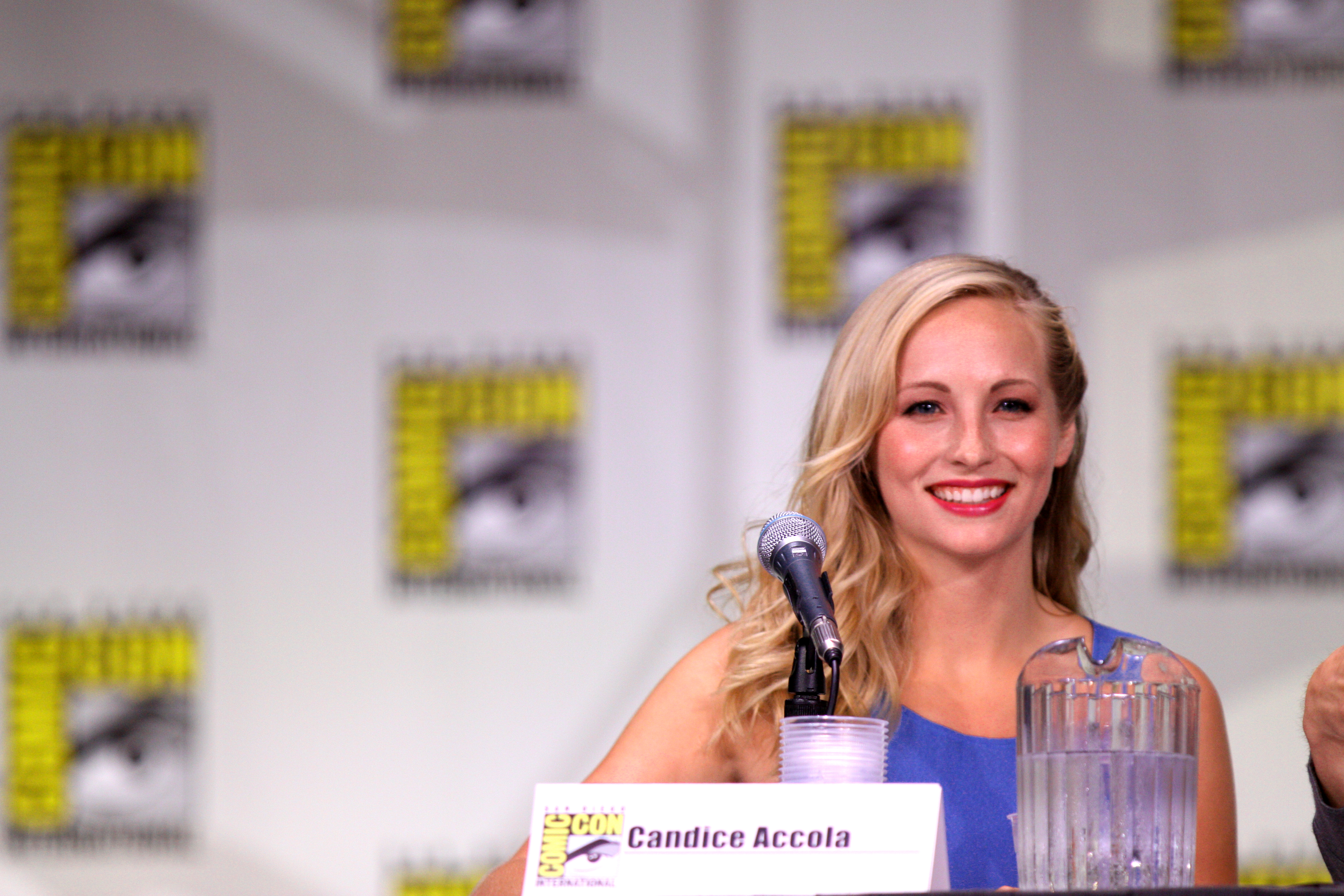 Candice Accola at the 2011 San Diego Comic-Con International in San Diego, California.